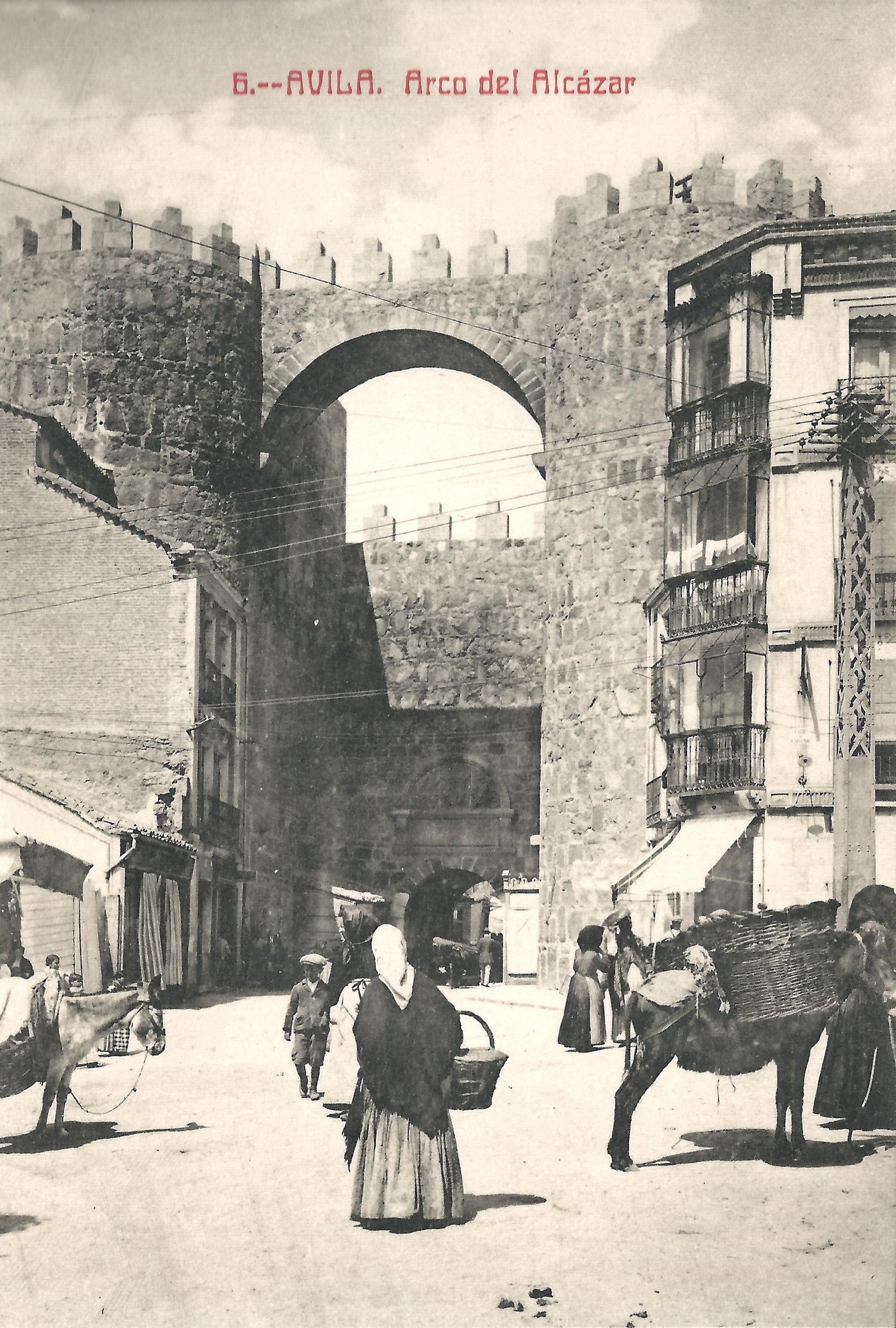 Wall Gate Alcázar in 1912, Ávila (Ávila, Spain)